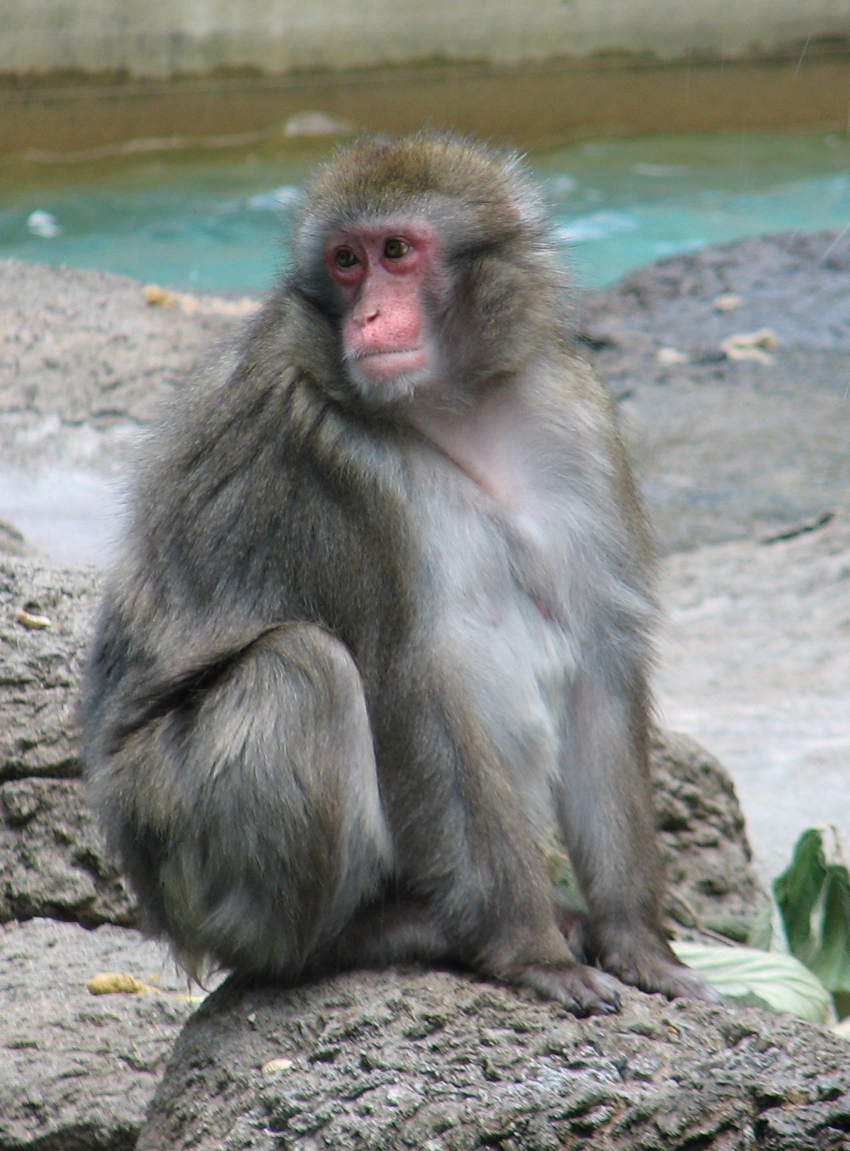 Japanese Macaque - Macaca fuscata at Cincinnati Zoo